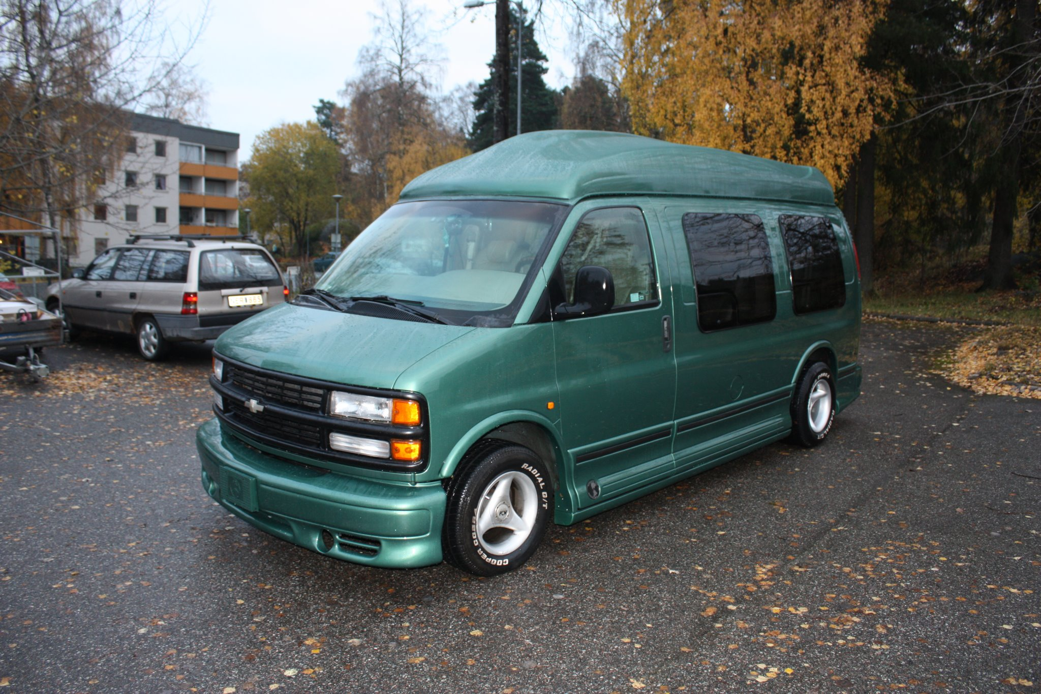 1998 Chevy Explorer front